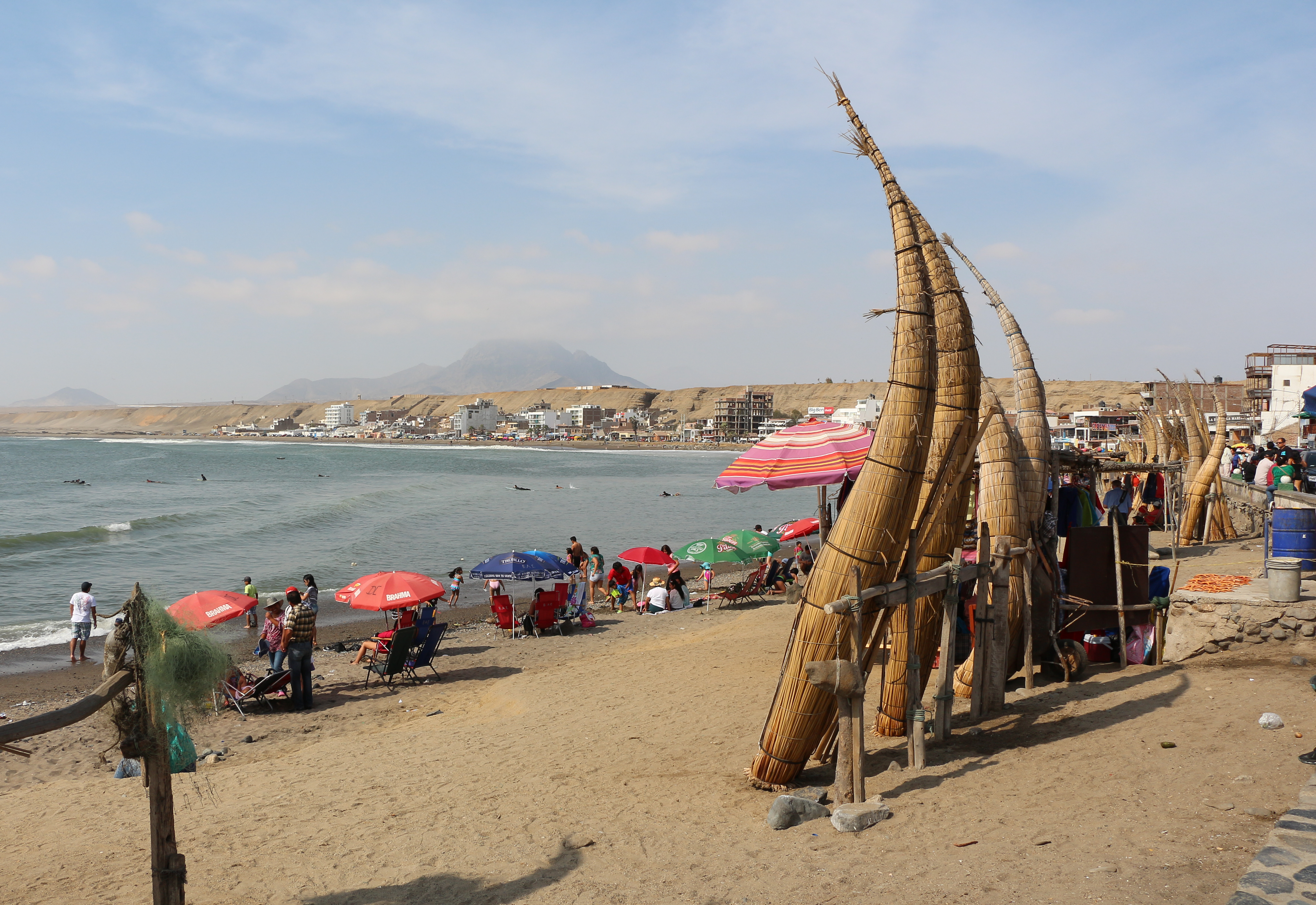 Huanchaco Beach, Peru